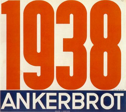 Promotional poster for the "Ankerbrot-Werke" factory, printed by J. Weiner, Vienna